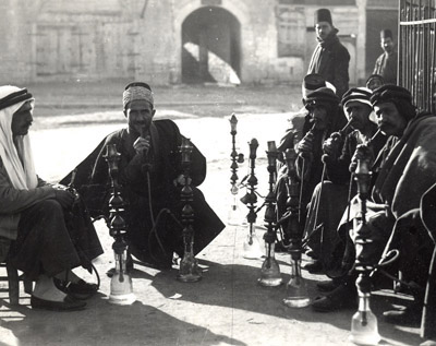 Photo post-card by V. Derounian,1930, in Aleppo, Syria of an outdoor Cafe of Narghile Smokers [Water-Pipe, Shisha, ], widely used all over the Ottoman Provinces, with recent resurgence of popularity with the younger generations. The tobacco used, called Tunbak, was imported from Persia